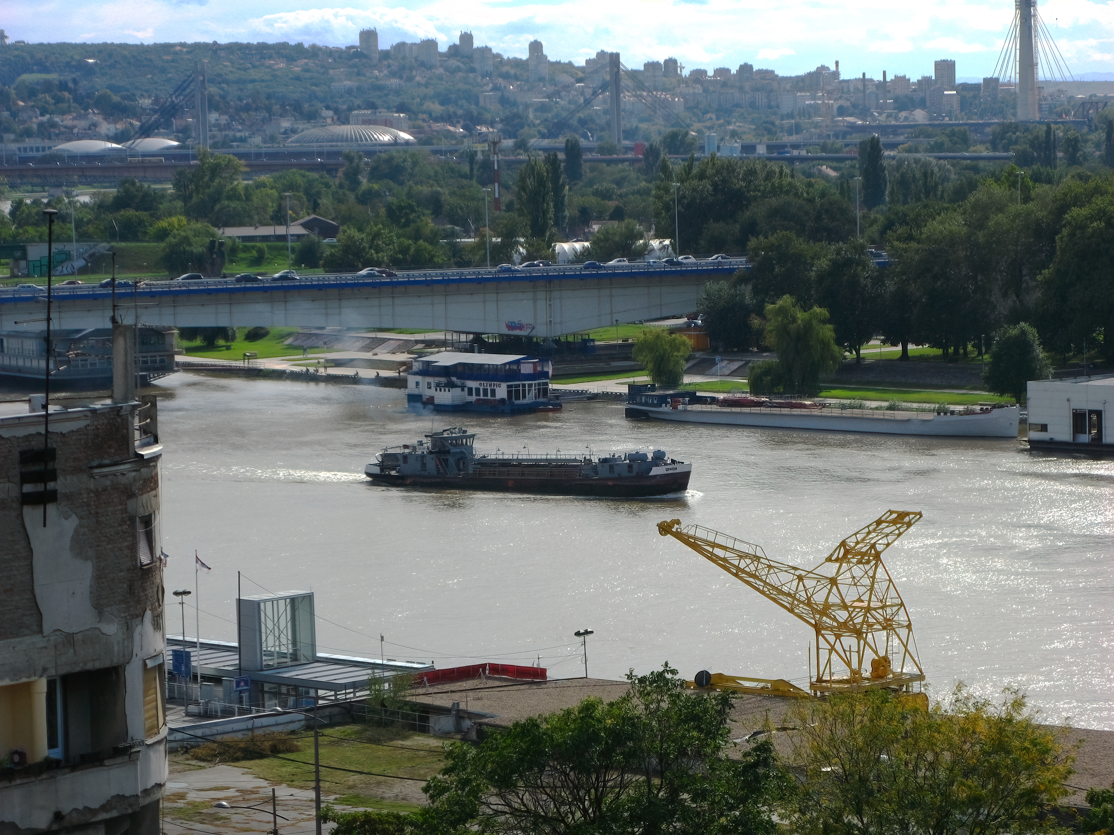 River transport in Belgrade, Serbia. Ship transport on Sava river.